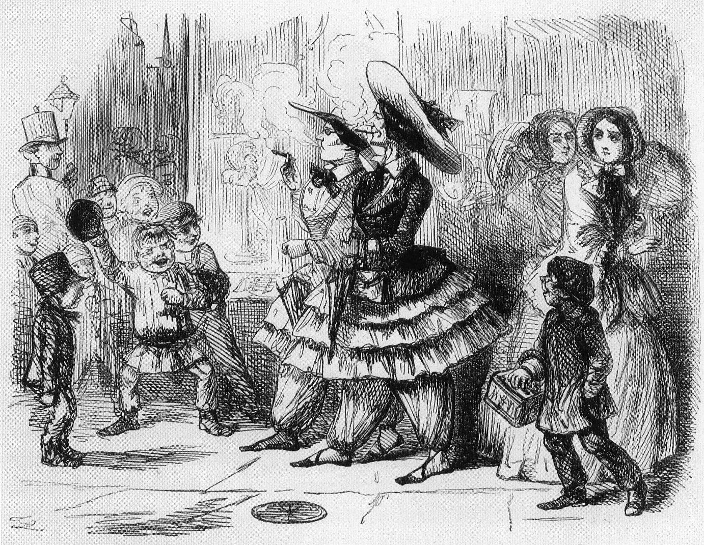 Caption from the source: "Bloomerism – an American custom", cartoon from Punch, 1851. Some American women appeared in the streets of London in a tunic and trousers, confirming a certain brassy stereotype. The feminist "bloomer" attire received much ridicule in the mid-19th century. This cartoon seeks to associate it with women smoking, which was considered completely unfeminine during the Victorian period.